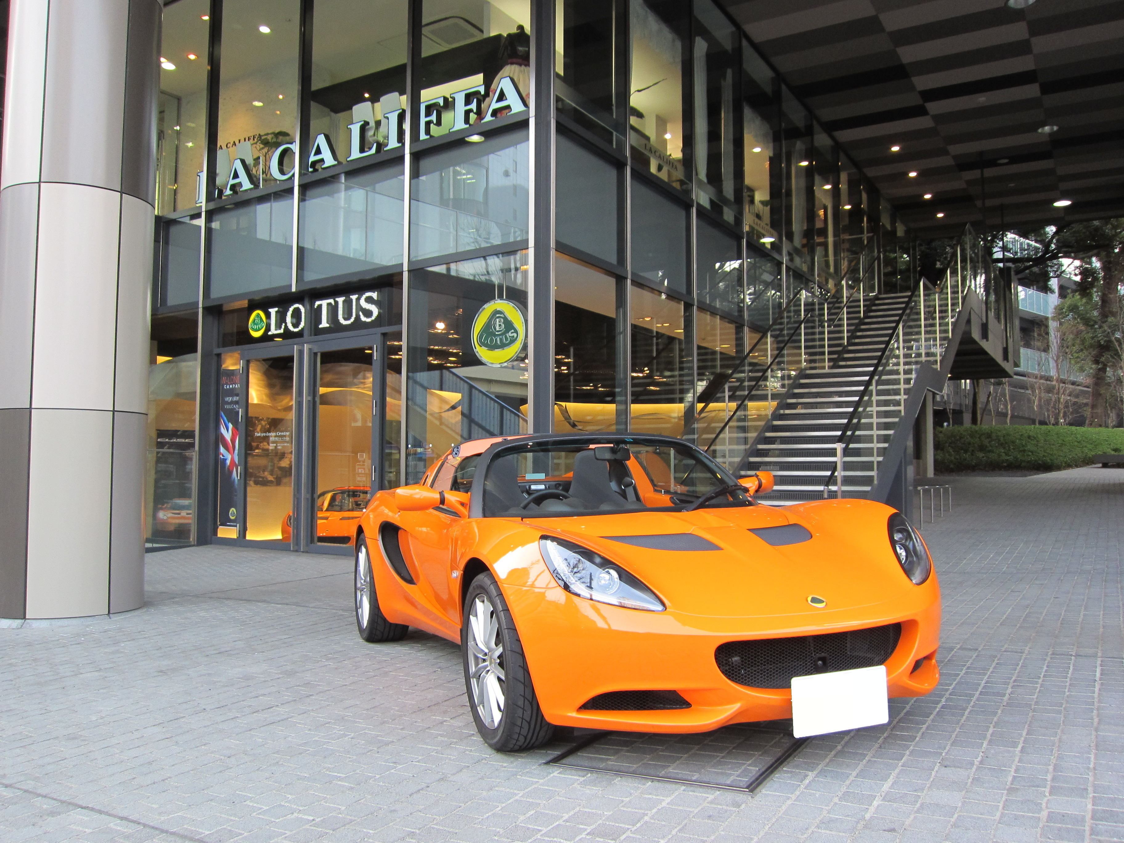 Lotus TLC-Harajuku Showroom